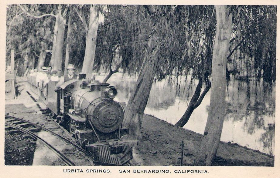 Miniature Railroad at Urbita Springs, San Bernardino, California